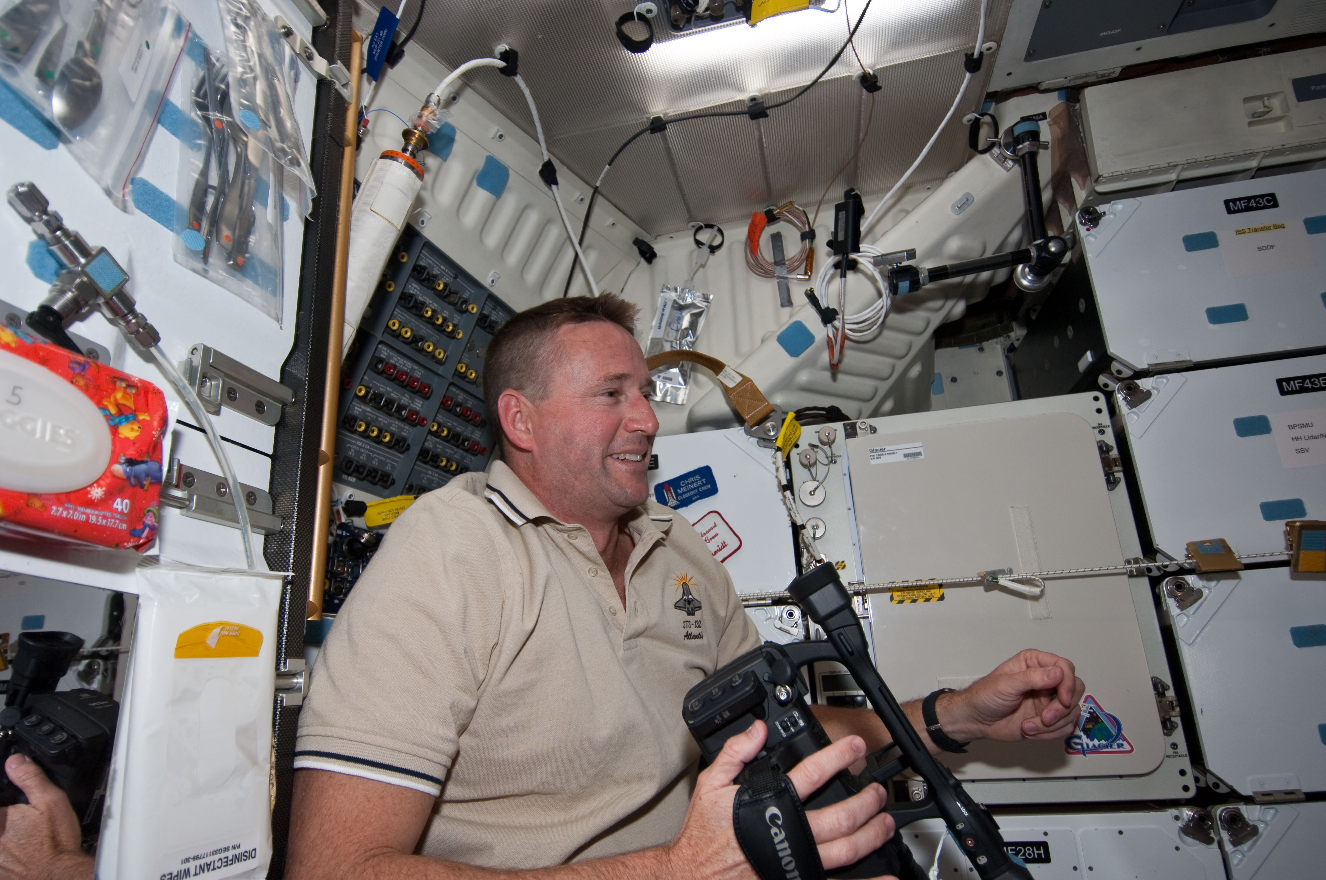 NASA astronaut Ken Ham, STS-132 mission commander, prepares to record some video on the middeck of space shuttle Atlantis during Flight Day 2 activities.